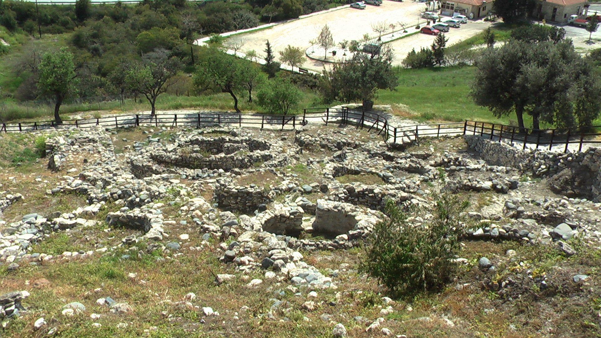 UNESCO world heritage site. Houses from circa 6000 BC. Located approx 30Km SW of Larnaka, Cyprus